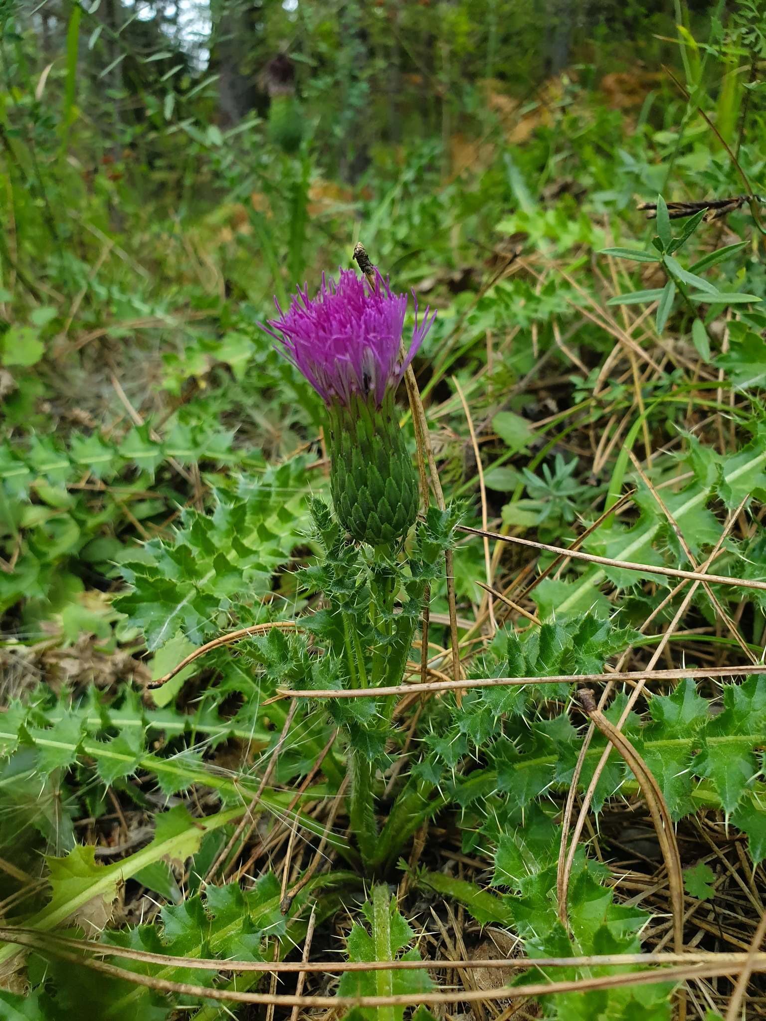 Cirsium acaule in Kršanje, Serbia